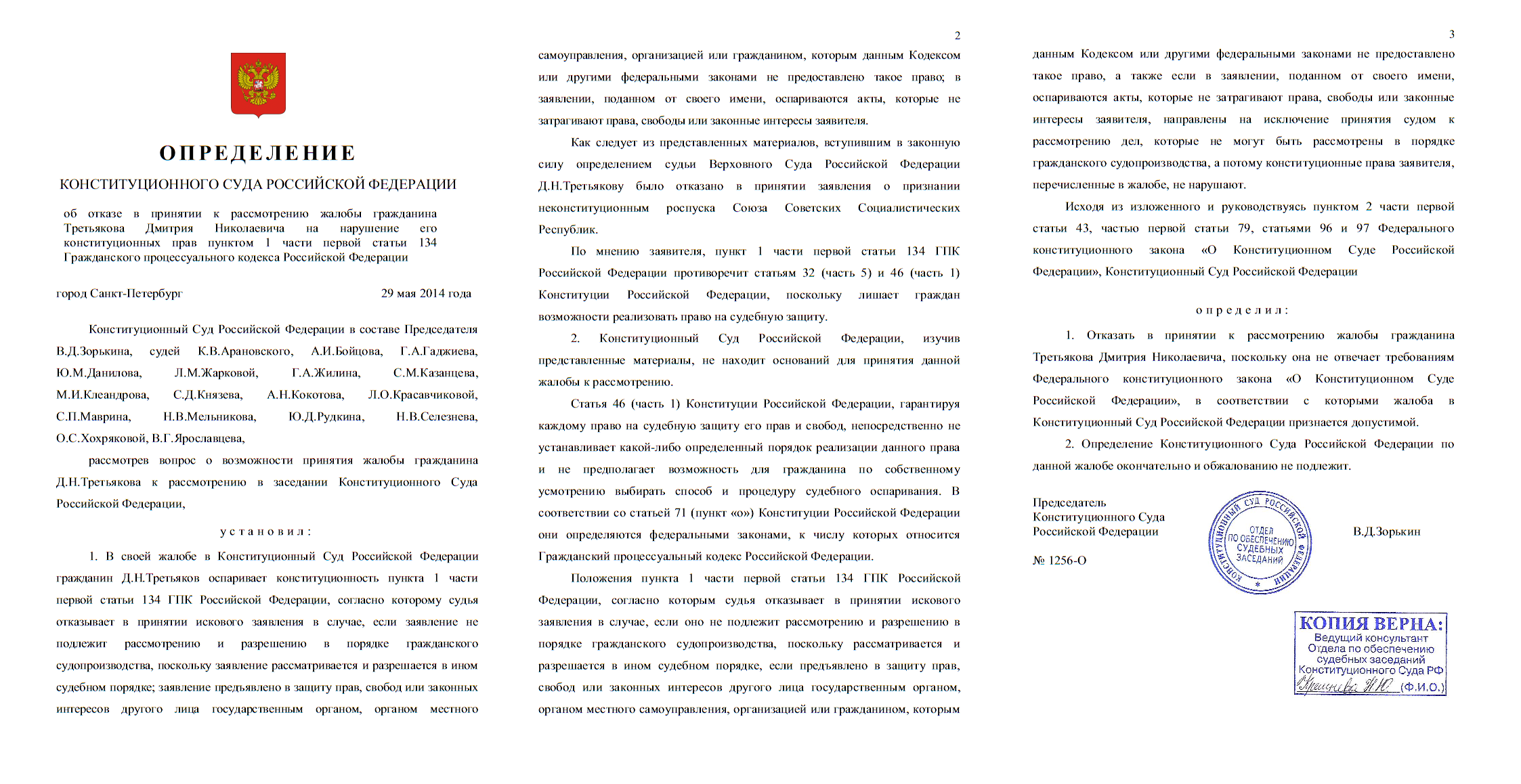 The answer of the Russian constitutional Court on refusal to accept for consideration of the complaint to the Decision of the Supreme Court of Russia On the unconstitutional dissolution of the Soviet Union from may 29, 2014